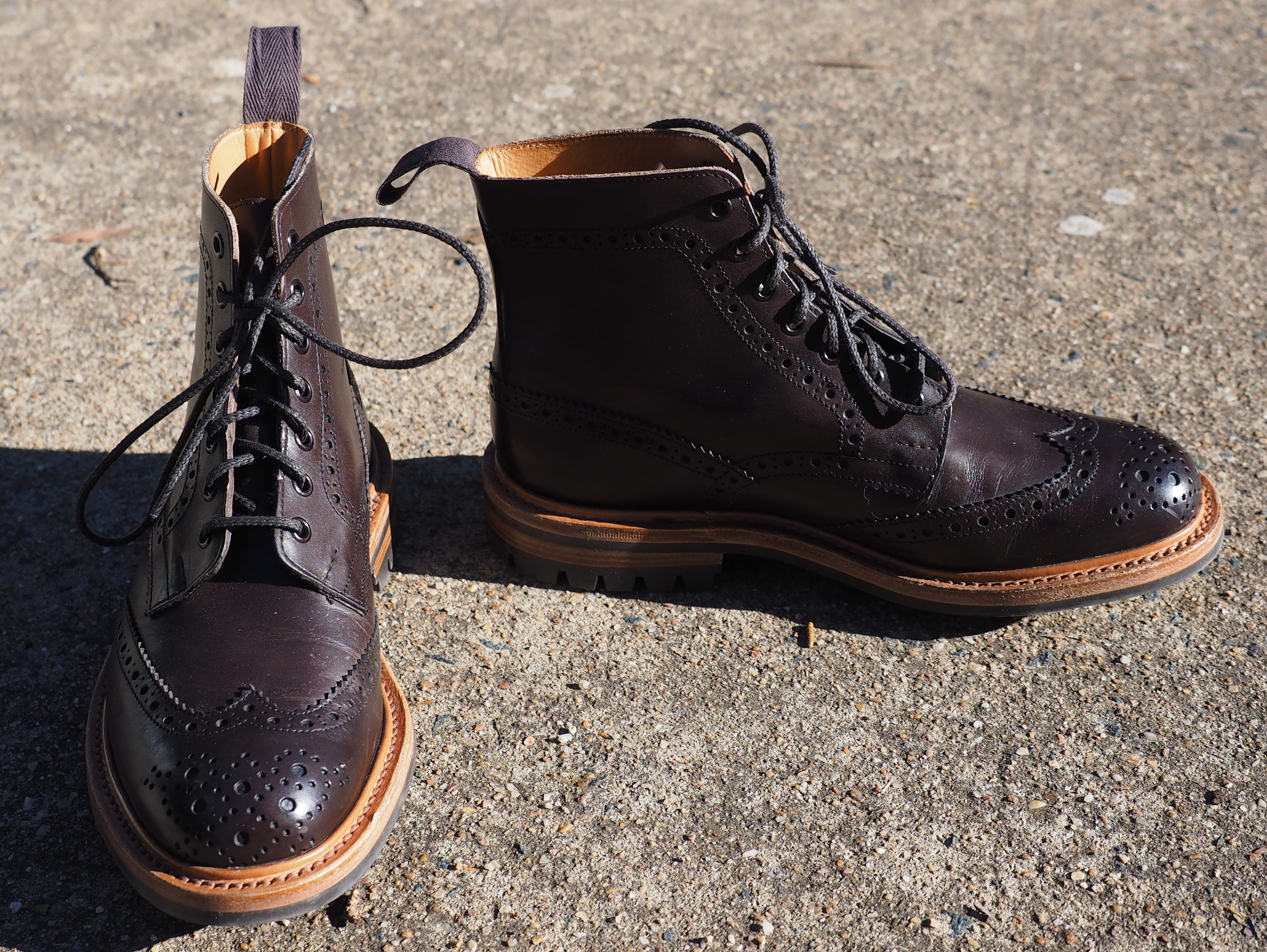 A pair of Tricker's Stow country boots in burnished expresso leather with commando soles